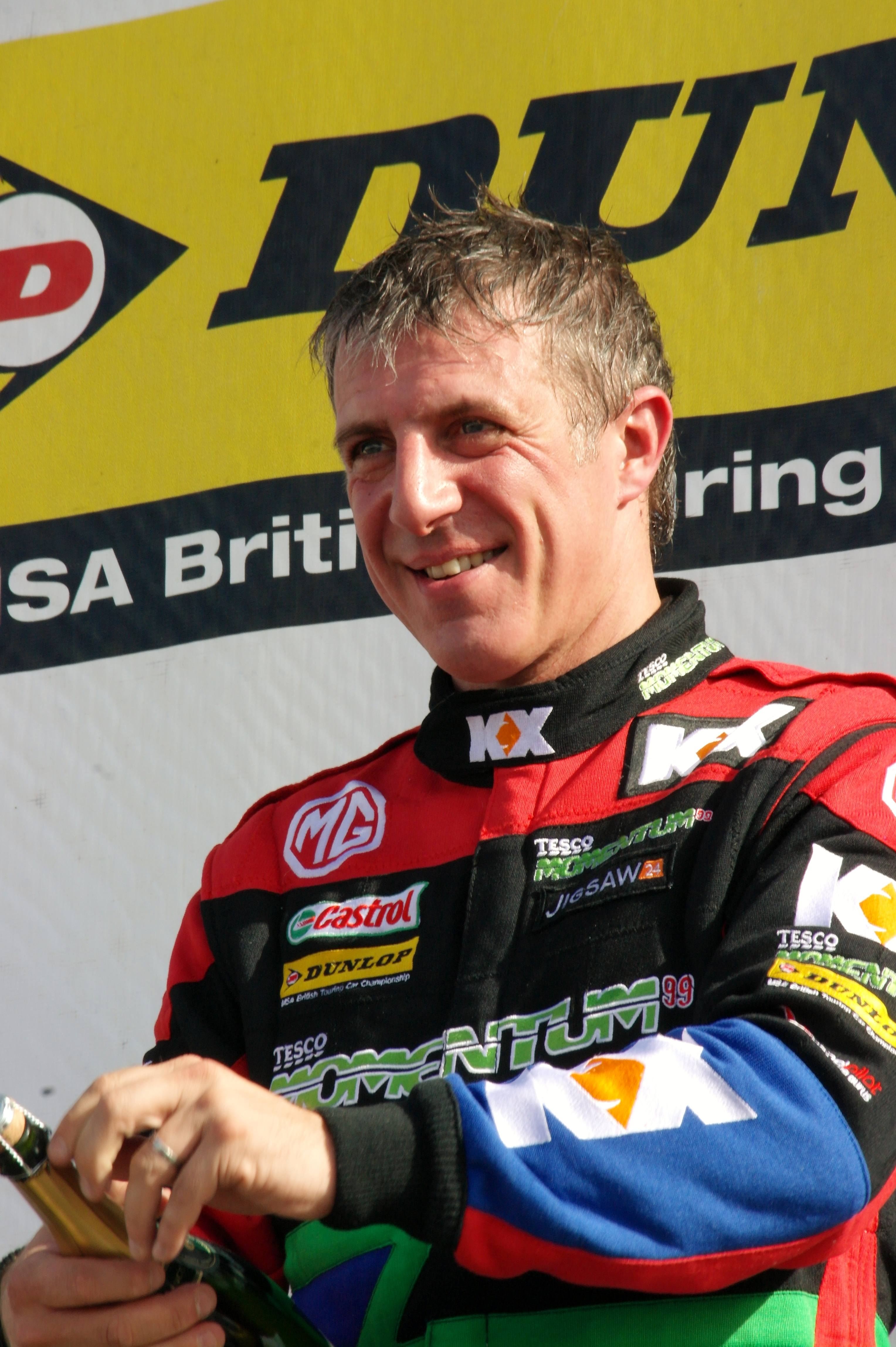 Jason Plato as a driver for MG KX Momentum Racing at Silverstone in the 2012 British Touring Car Championship.